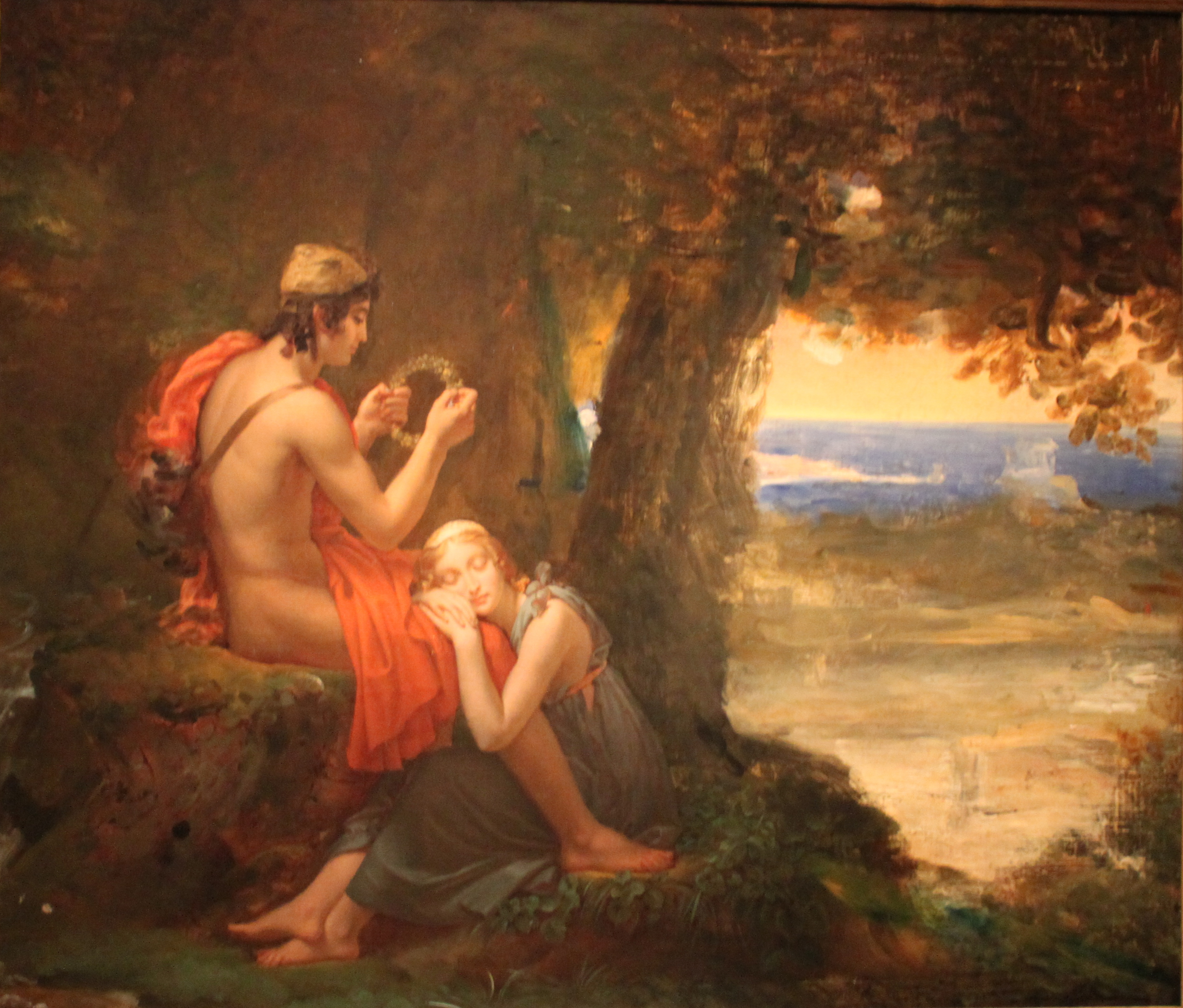 "Daphnis and Chloe" by François Gérard, circa 1824, oil on canvas, Detroit Institute of Arts